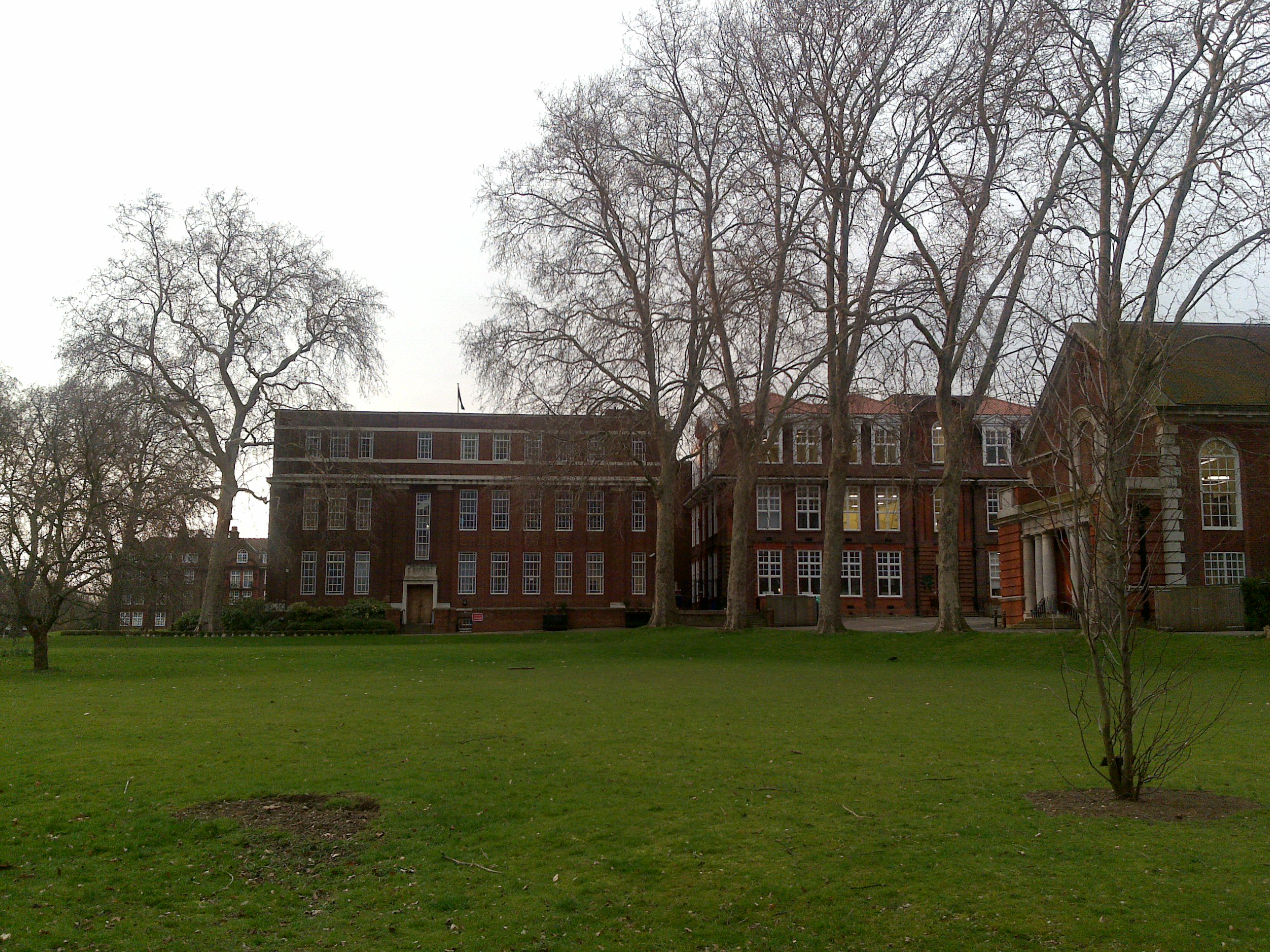 Regent's college at Regent's Park, London